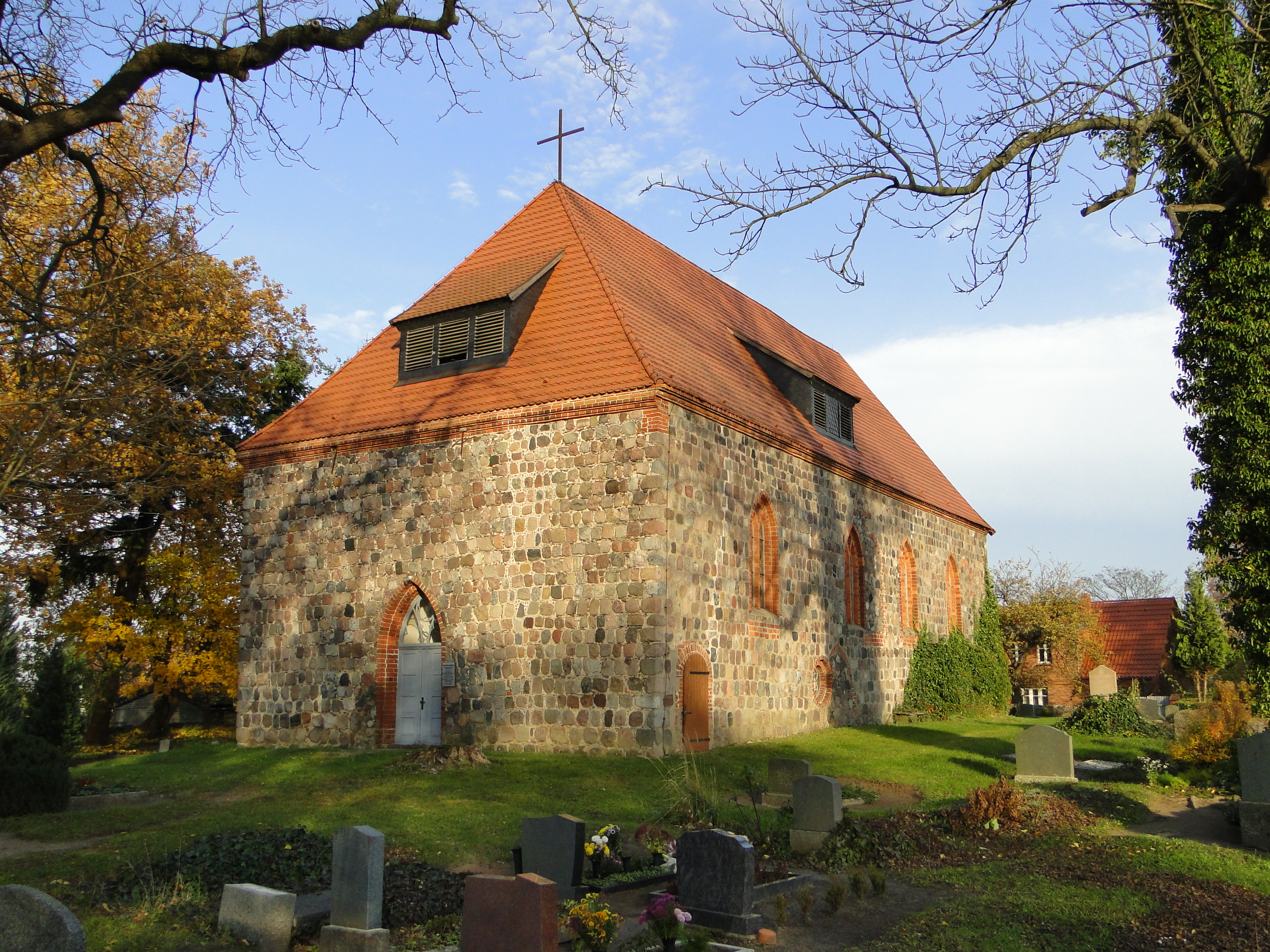 Church in Grünow, district Mecklenburg-Strelitz, Mecklenburg-Vorpommern, Germany